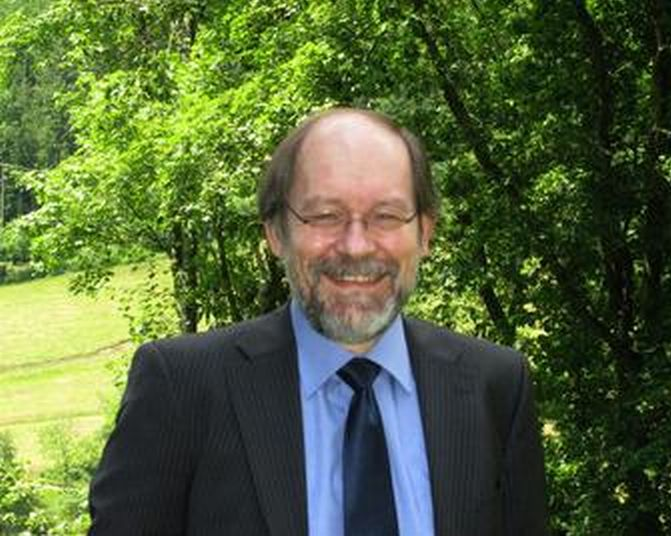 Peter Gritzmann, Oberwolfach 2010